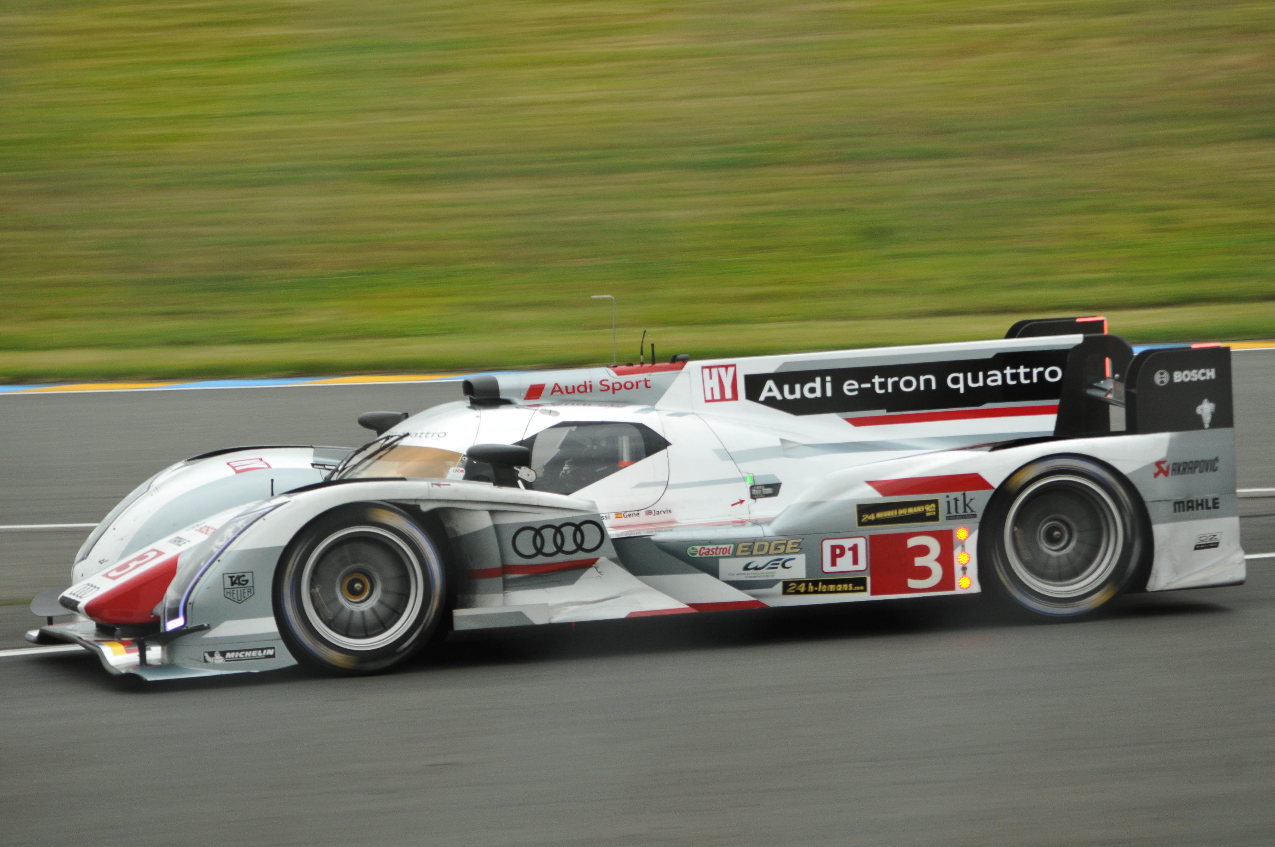 Le Mans 2013 (169 of 631)